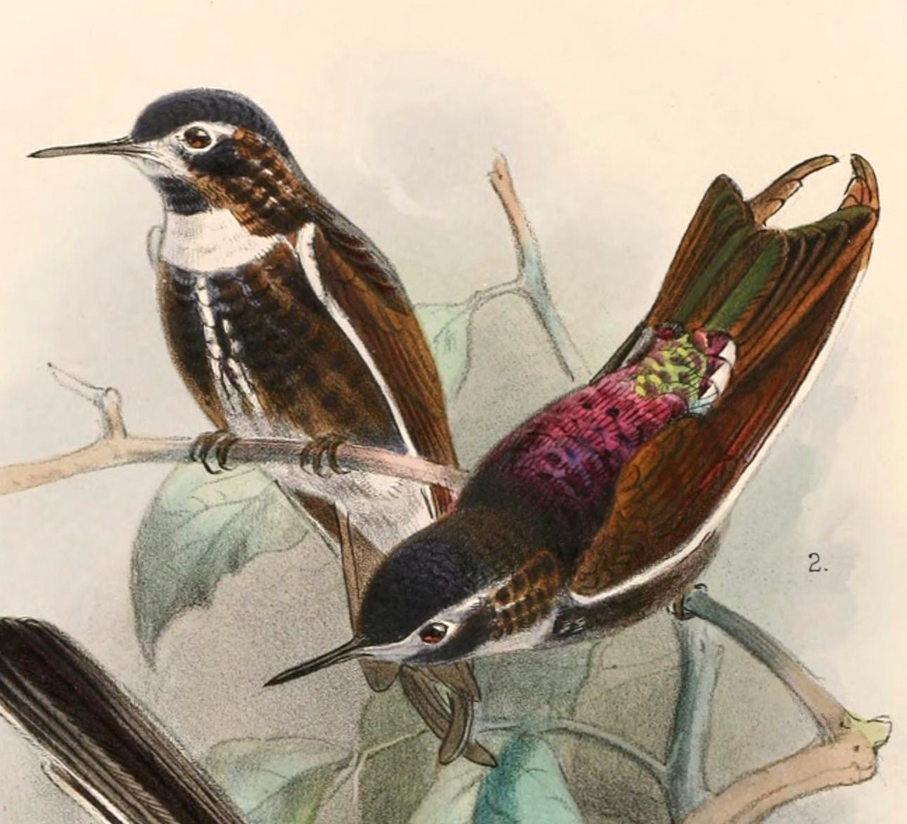 « Aglaeactis aliciae » = Aglaeactis aliciae (Purple-backed Sunbeam)